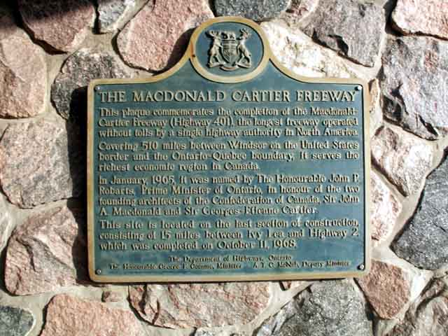 my photo of a marker indicating completion of Highway 401 (Ontario)